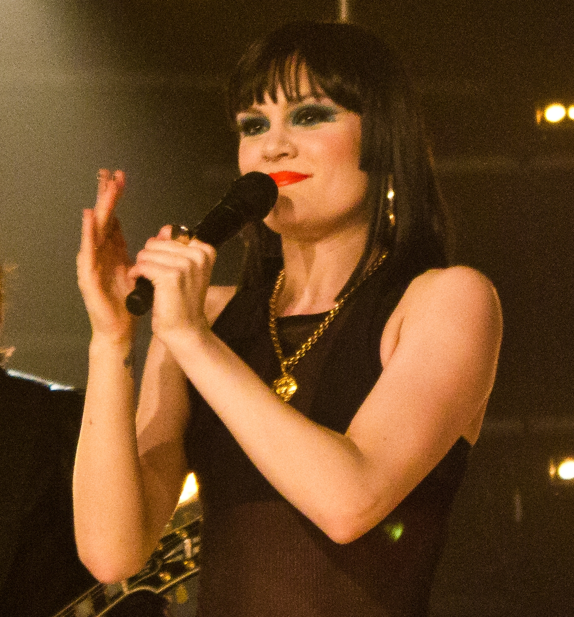 Jessie J in NYC.